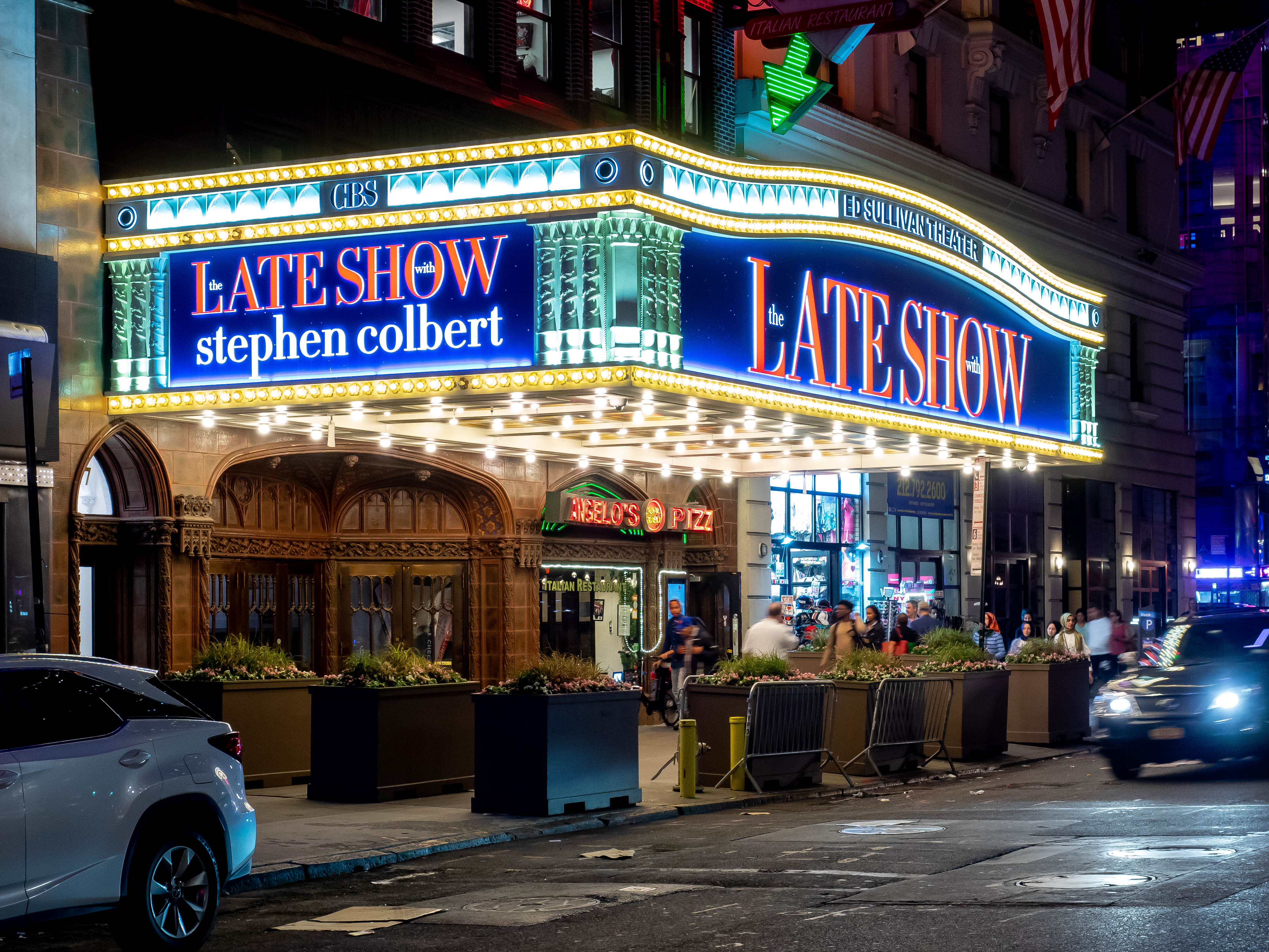 July 2019